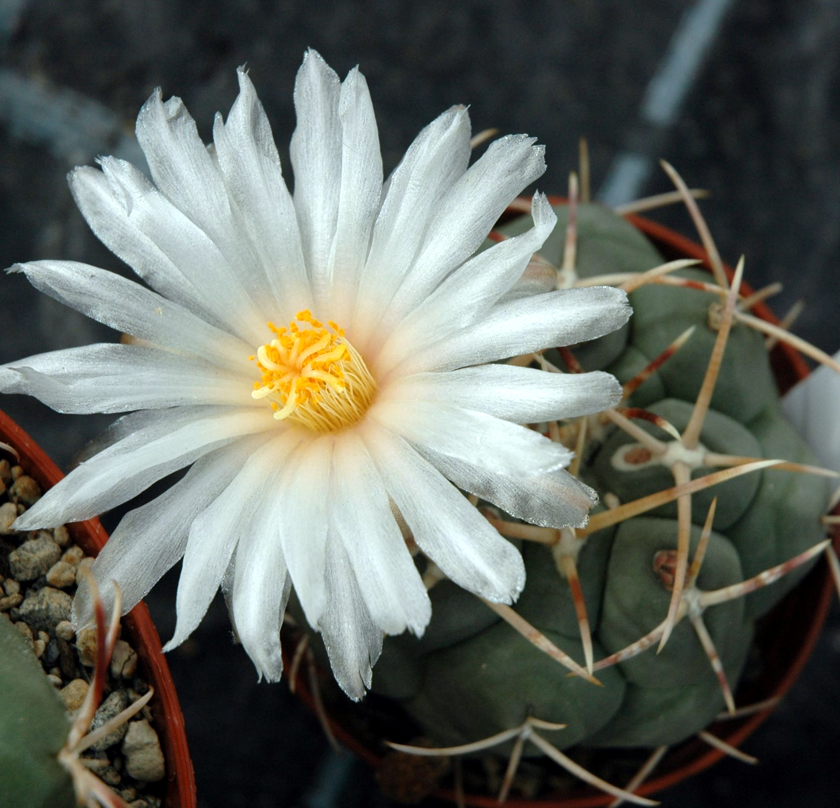 Flower of Thelocactus hexaedrophorus